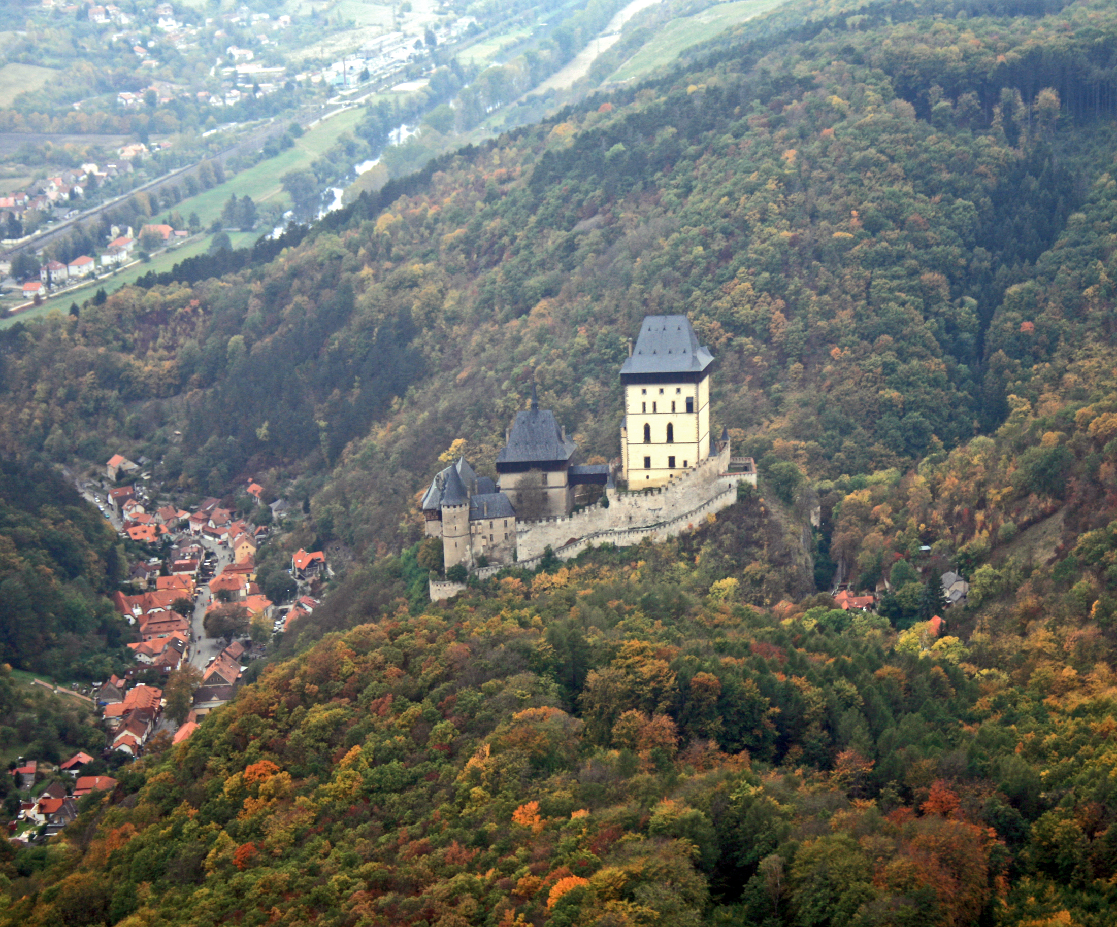 Air photo of Karlštejn Castle and part of village Karlštejn, near river Berounka, middle Bohemia, Czech Republic